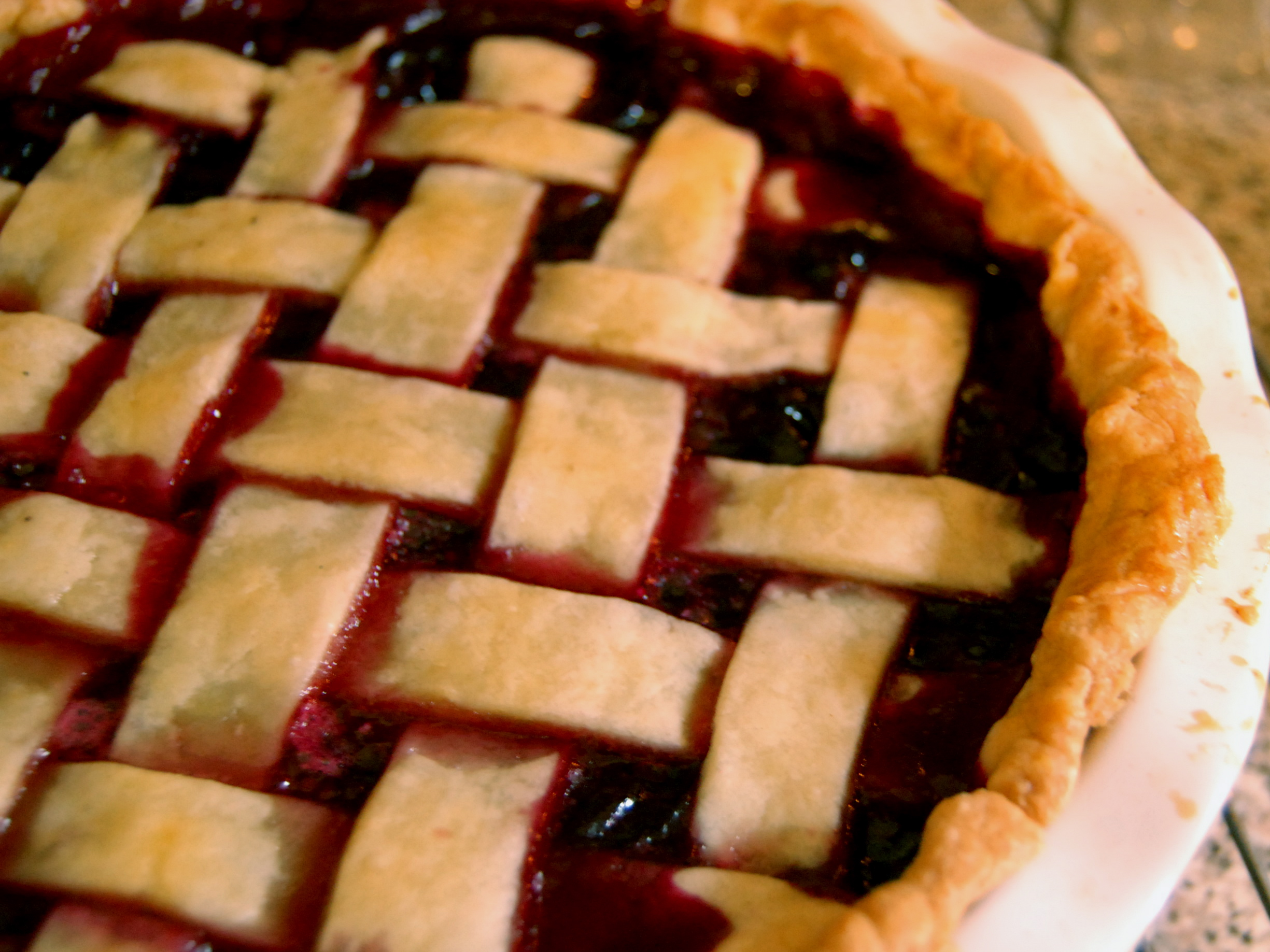 Photo of a Concord grape pie